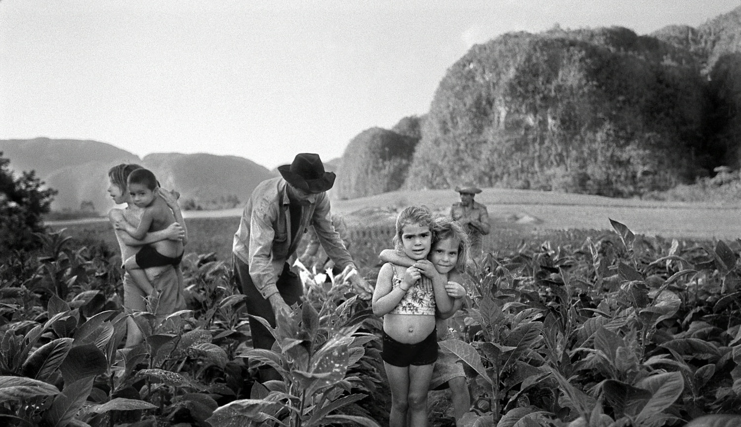 Tobacco Harvesting, Valle de Viñales, Cuba, 2002. (Photo by Manuel Rivera-Ortiz; used with permission of author). Description by Rivera-Ortiz (used with permission of author): "A family of six grows tobacco in their farm which ends up in government warehouses to be shipped as cigars around the world. The family receives very little for their backbreaking work, with the rest of the profits from the sales of cigars going to government coffers for island-wide social programs. About 50,000 hectares (123,550 acres, or, 2.471 acres per hactare) are reserved for growing tobacco in Cuba. Tobacco is predominantly grown in the 90-mile-long (10-mile-wide) valley Vuelta Abajo, Pinar del Rio, where this photo was taken, at the foot of these limestone hills fraught with natural caves and tunnels which were once inhabited by Pre-Columbian Indians and later, by runaway slaves. In 1999, Altadis, a Franco-Spanish tobacco giant, is said to have signed a $500 million USD deal to take over a 50% stake in Cuba’s state owned firm Habanos S.A."